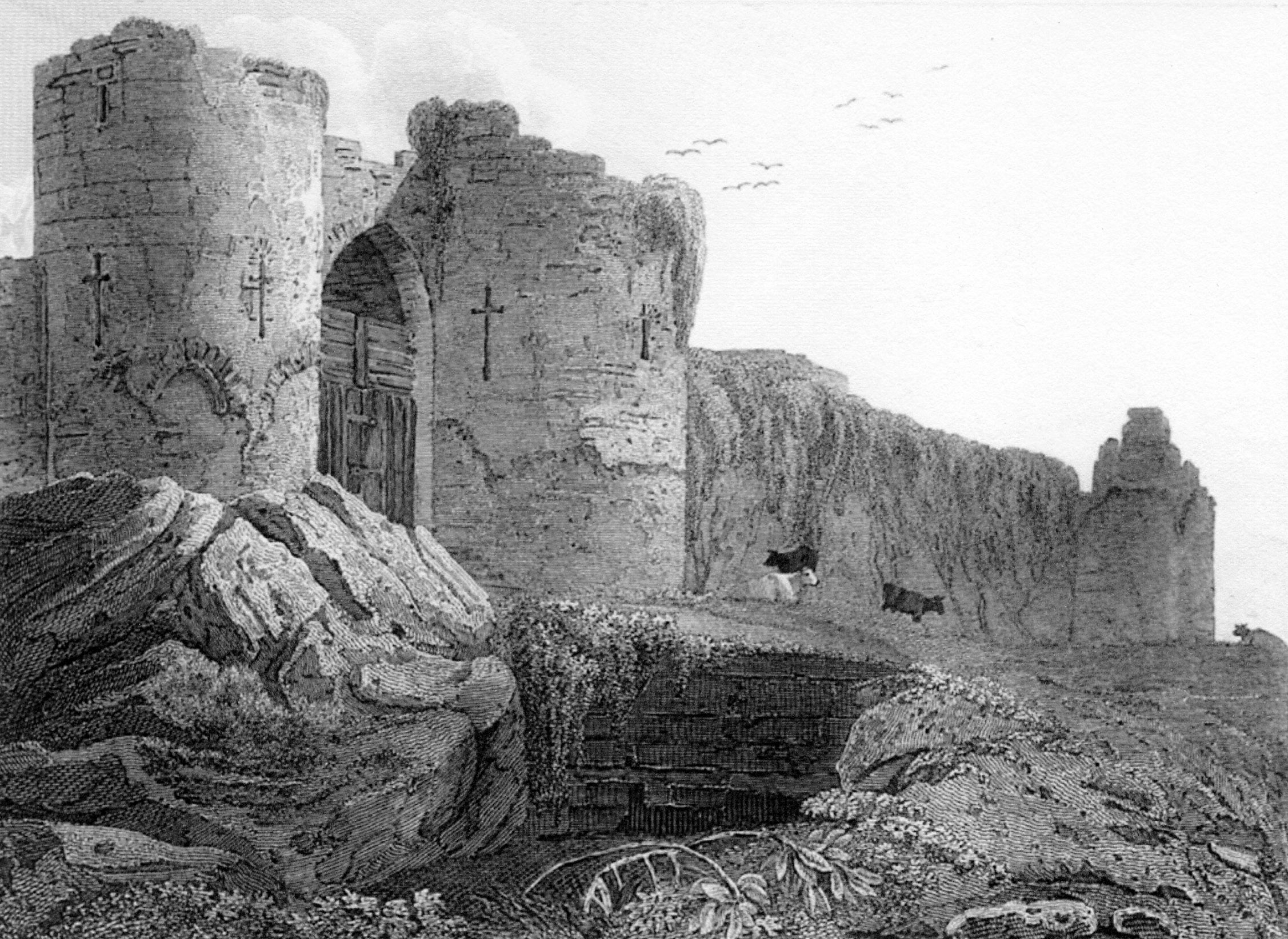 Engraving of the gateway of Beeston Castle